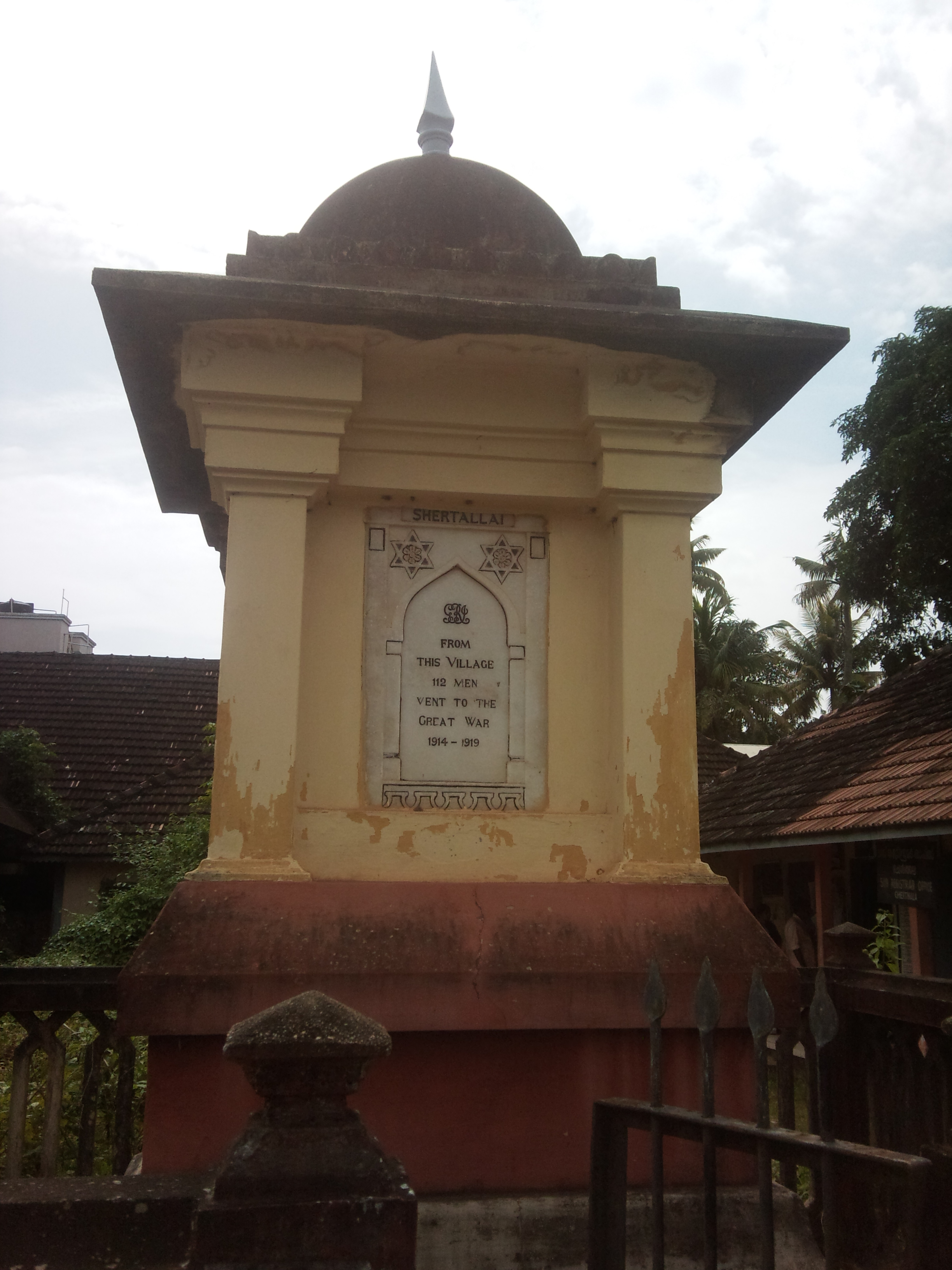 Memorial to the people from Cherthala (Kerala, India) who went to world war 1. The inscription reads 'From this village 112 men went to the great war (1914 -1919)'.